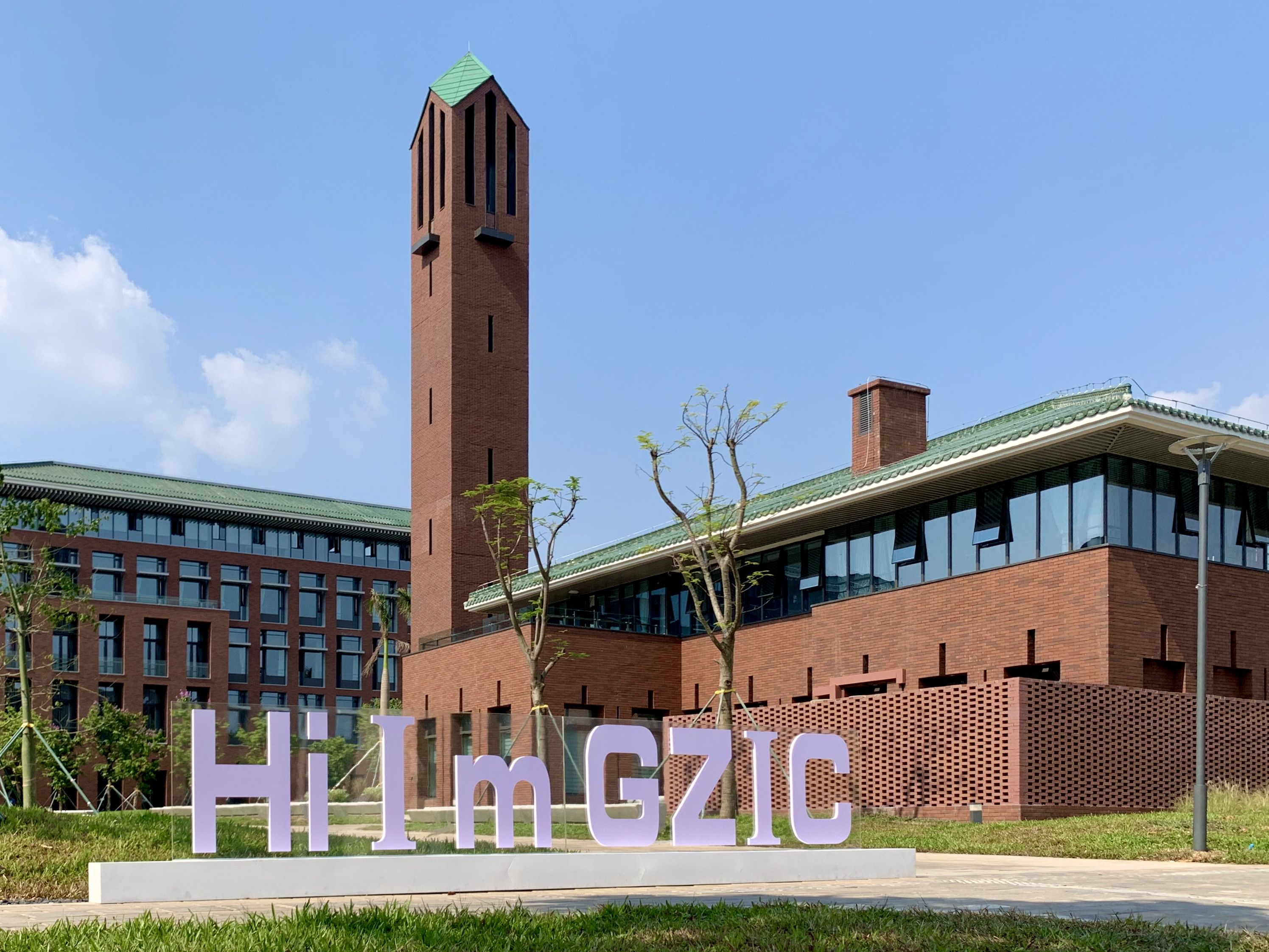 Zone D2 of Guangzhou International Campus (GZIC), South China University of Technology (SCUT).